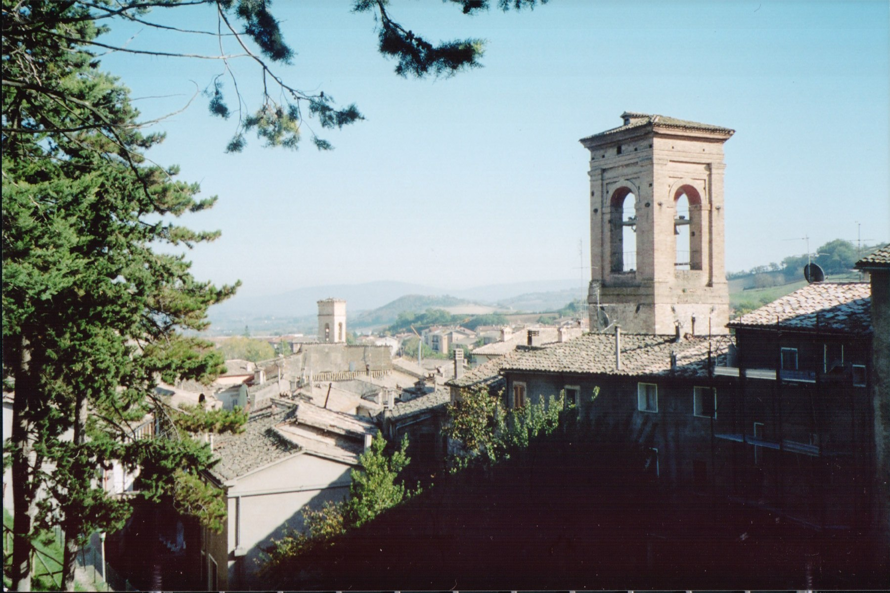 Sight of the ancient part of Esanatoglia, a town and comune in the Marche province of Italy.